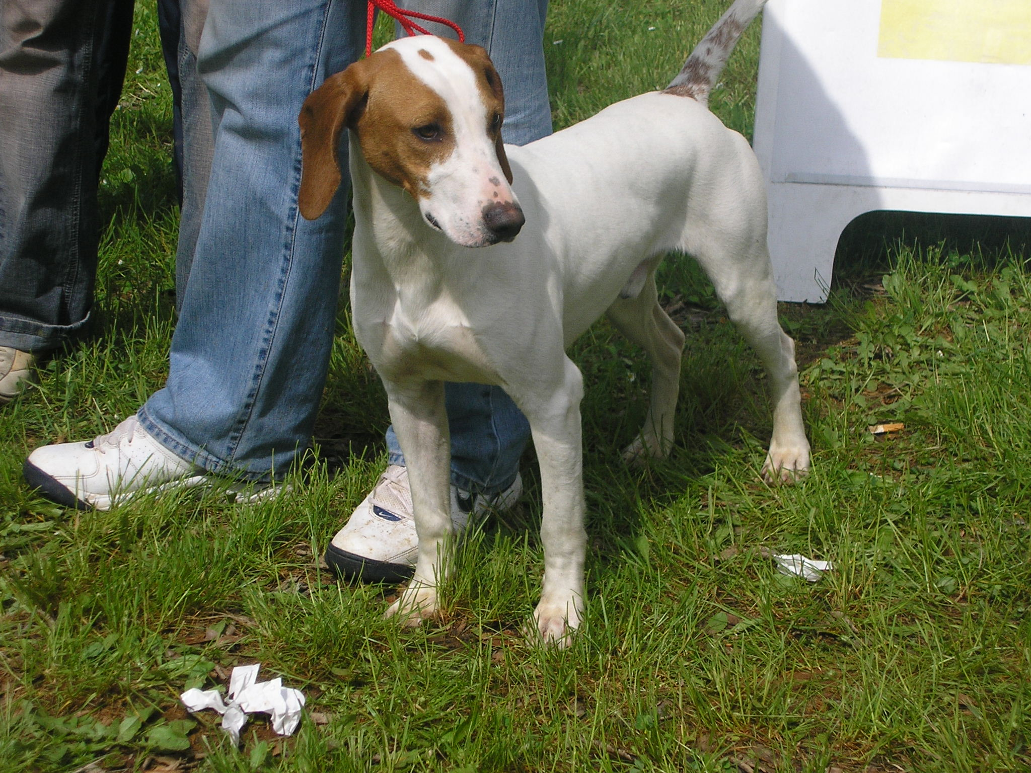 Istrian Shorthaired Hound at a dog show in Zadar, Croatia (CACIB 2006.)